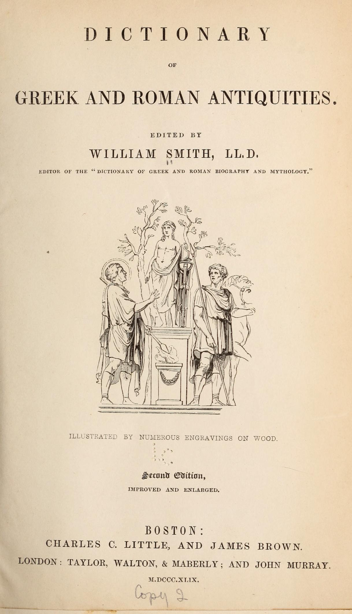 Dictionary of Greek and Roman Antiquities by William Smith cover